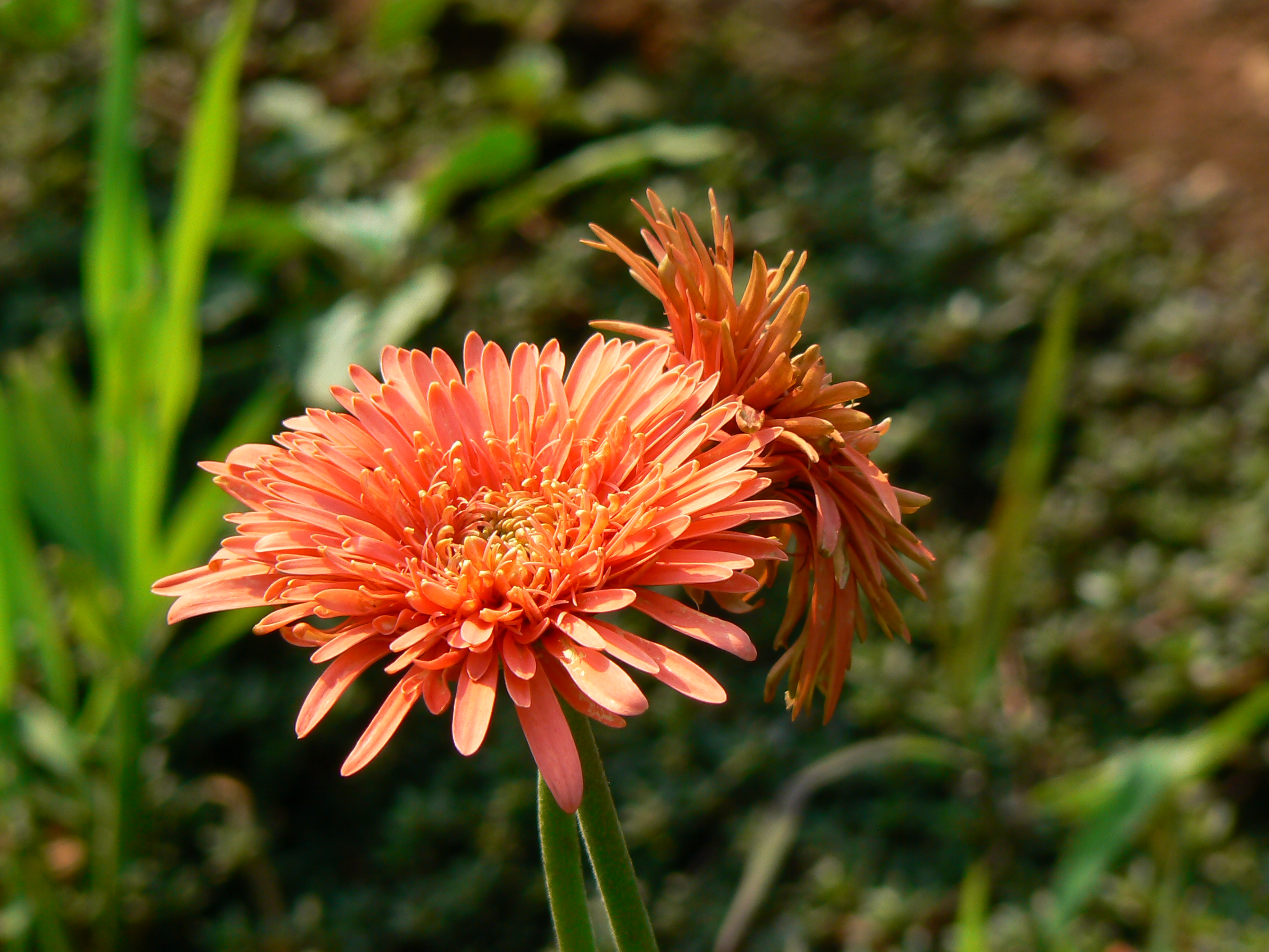 Common name: Gerbera Daisy, Transvaal Daisy, African Daisy, Barberton Daisy Botanical name: Gerbera jamesonii - [ (GER-ber-uh) named after Dr. Traugott Gerber, German naturalist; (jay-mess-OWN-ee-eye) named after Robert Jameson, 19th century amateur botanist who discovered the species ] Family: Asteraceae or alternatively Compositeae (aster, daisy, or sunflower family) - [ (ass-ter-AY-see-ay) the aster (daisy) family; formerly Compositae ] Origin: South Africa The Gerbera jamesonii was discovered by Anton Rehmann in 1875 - 1880, but named in honour of Robert Jameson, who travelled the Lowveld about 1885. At Moodies Estate, near Barberton, he collected the plant. The epithet was proposed by Harry Bolus, the curator of the botanical garden in Cape Town, but first published by Adlam 1888 and should be ascribed to him. First illustrations of the Barberton Daisy (which is its popular name) were published in the Gardener's Chronicle in England in 1889. It is described as follows: "The roots are fascicled, whipcord-like, 1 - 2,5 mm wide, the central part often reported as taproot-like. The crown is felted or villose. Several long-stalked spreading leaves, 15 to 42 cm long, in some cases up to 68 cm long and 4 to 14 cm wide. The upper surface is dark green, the lower one waxy green, the leaves have very distinct ragged edges. The flowers grow on long single stems. and can reach a diameter of up to 75 mm in some cases even more. The colours vary from white to dark red with all variations inbetween. The most prominent colour is orange-red. The pappus is creamy white to dirty white." Courtesy: - Flowers of India - Dave's Garden - The Gerbera Association Note: Identification or description may not be accurate; it is subject to your review.